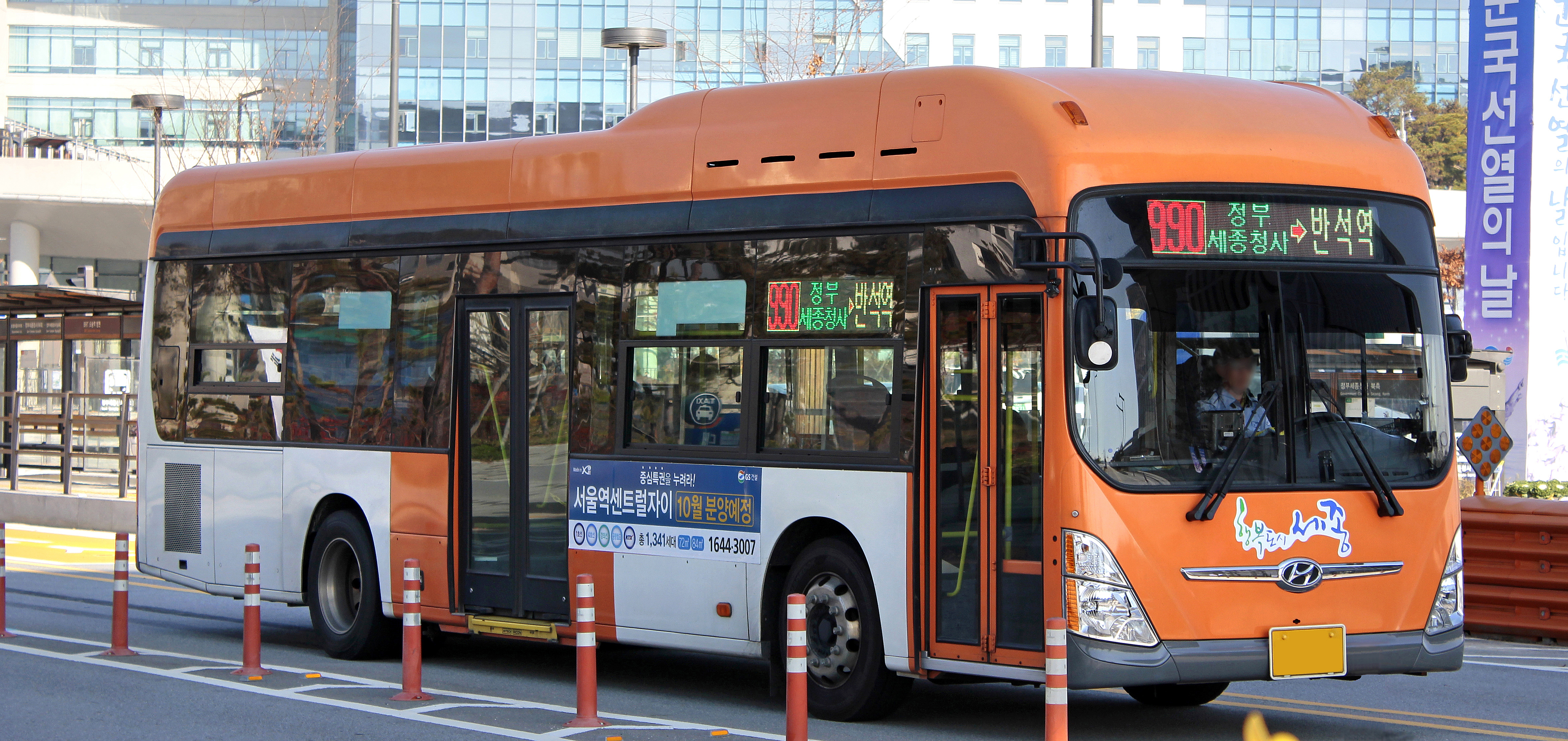 Sejong BRT (Route 990) BlueCity Coach